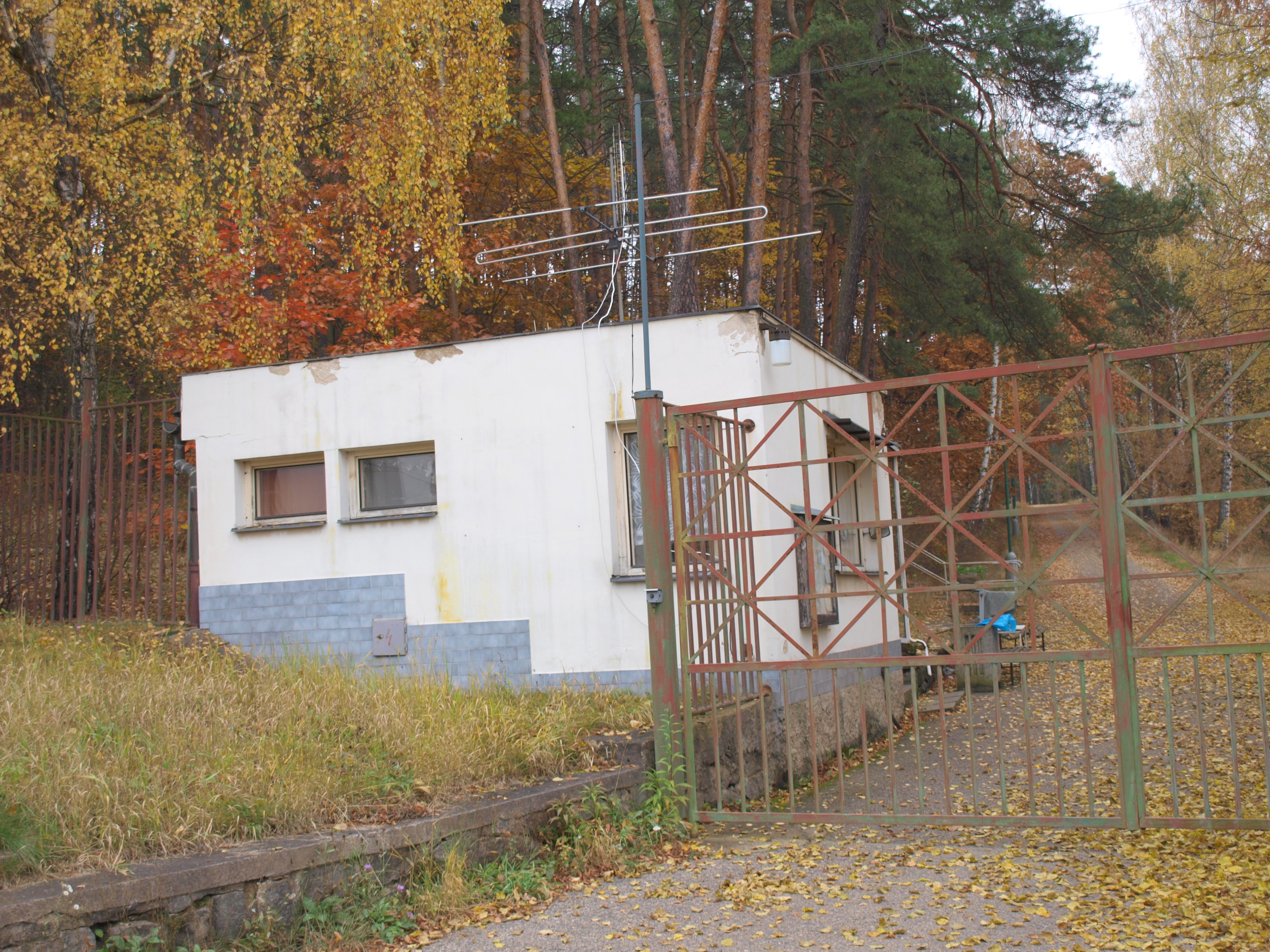 Gatehouse of sanatorium Humanita in Prosečnice, Central Bohemian Region